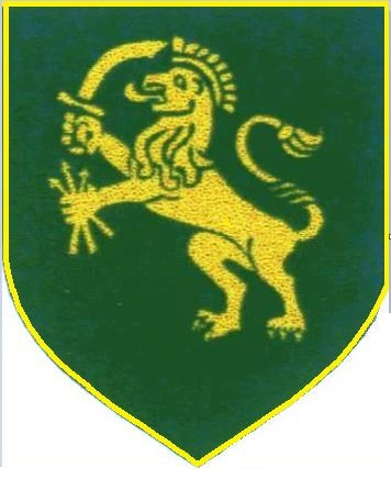 SANDF 9 SAI emblem